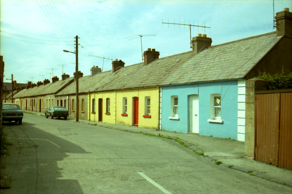 Rae tithe beaga ó dheireadh an 19ú aois i bPlás Mhic Gearailt sa bhlian 1982. Thóg Bárdas Luimní iad i gcomhair saighdiúiri na beairice taobh dorais agus d'oibrithe monarchain na cathrach. Leagadh iad ag tús na blianta 1990í. Grianghraf tógtha ag Seán an Scuab sa bhlian 1982.